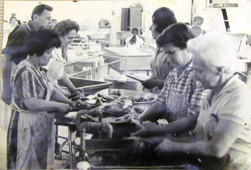 Preparing fishes for Passover, Settlements in Israel